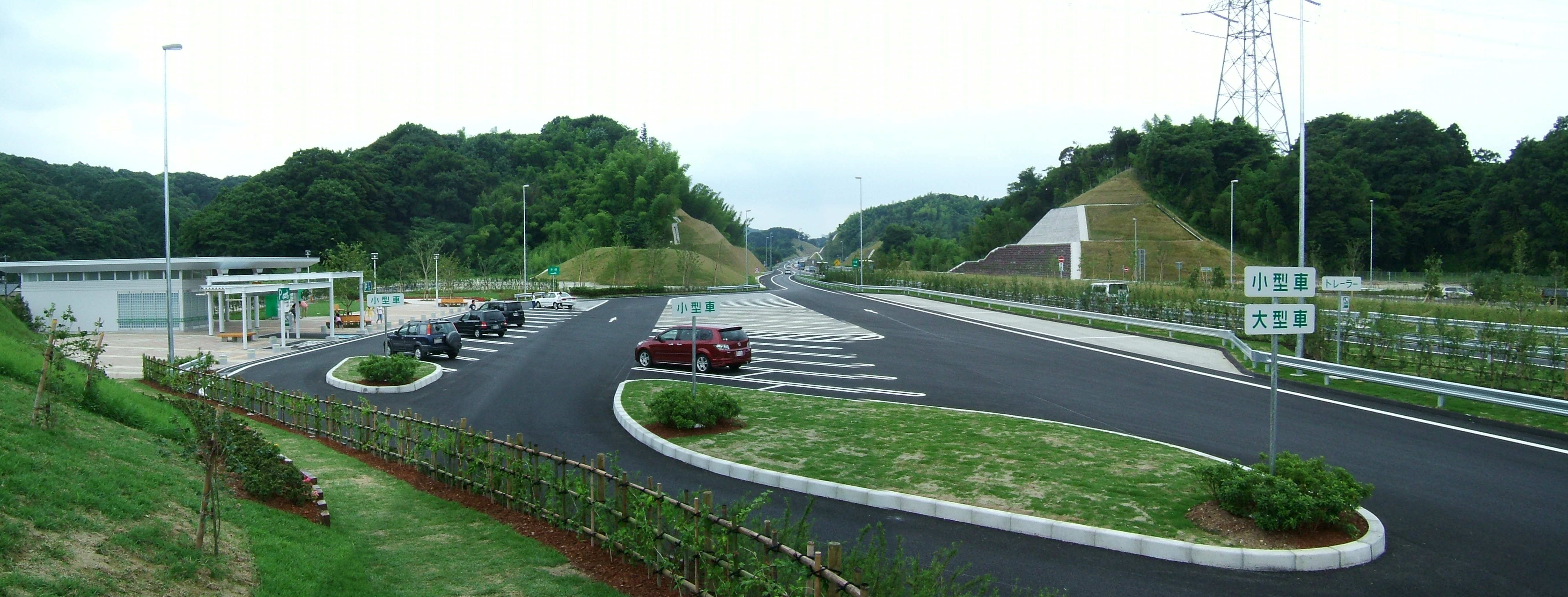 Kimitsu rest area on Tateyama Expressway for Tateyama